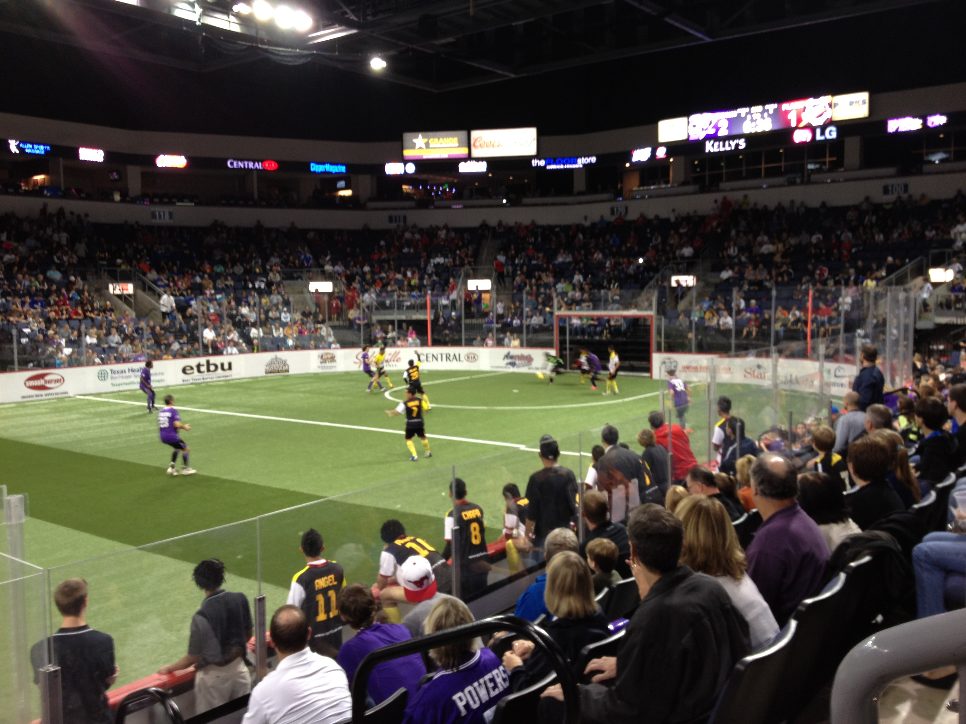 The new Dallas Sidekicks hosting the Rio Grande Valley Flash on November 30, 2012, at the Allen Event Center in Allen, Texas.